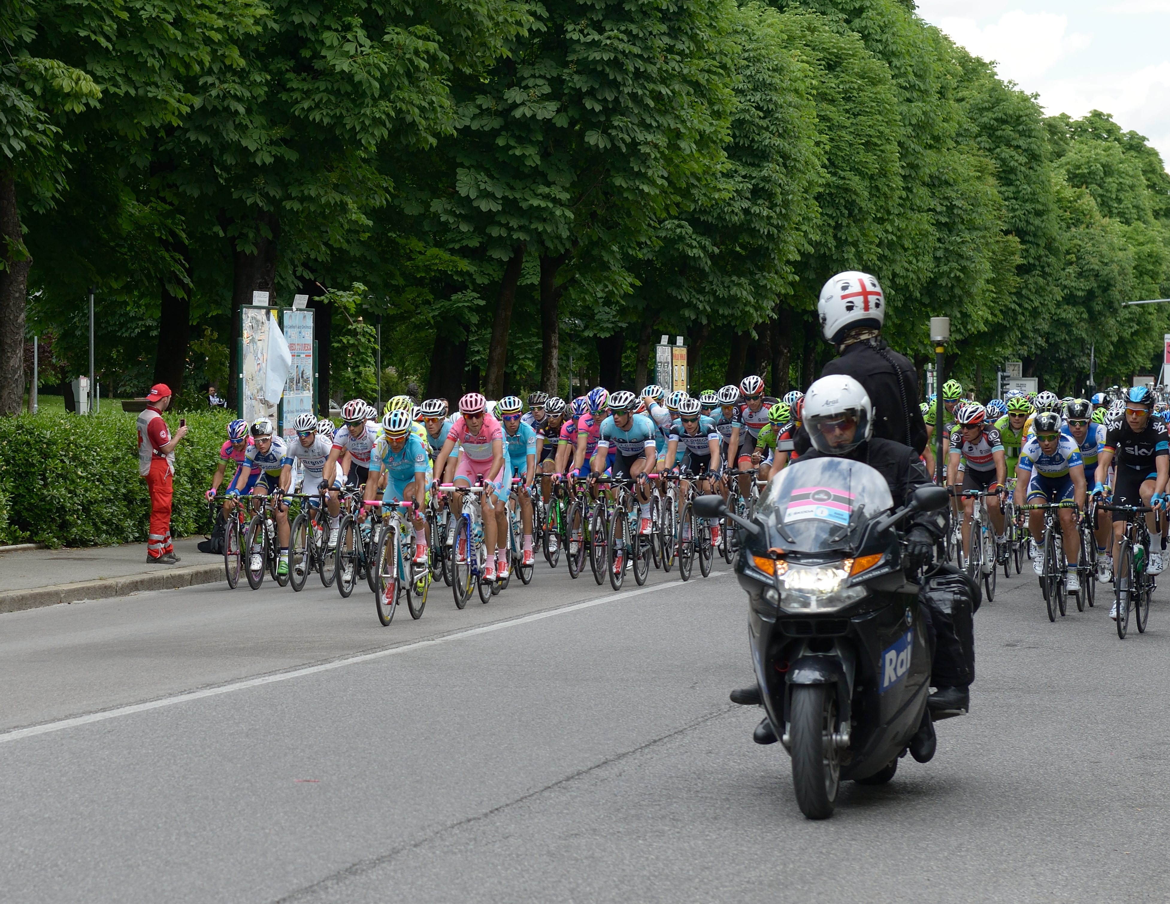 "Giro d'Italia" 2013 arrives in Brescia